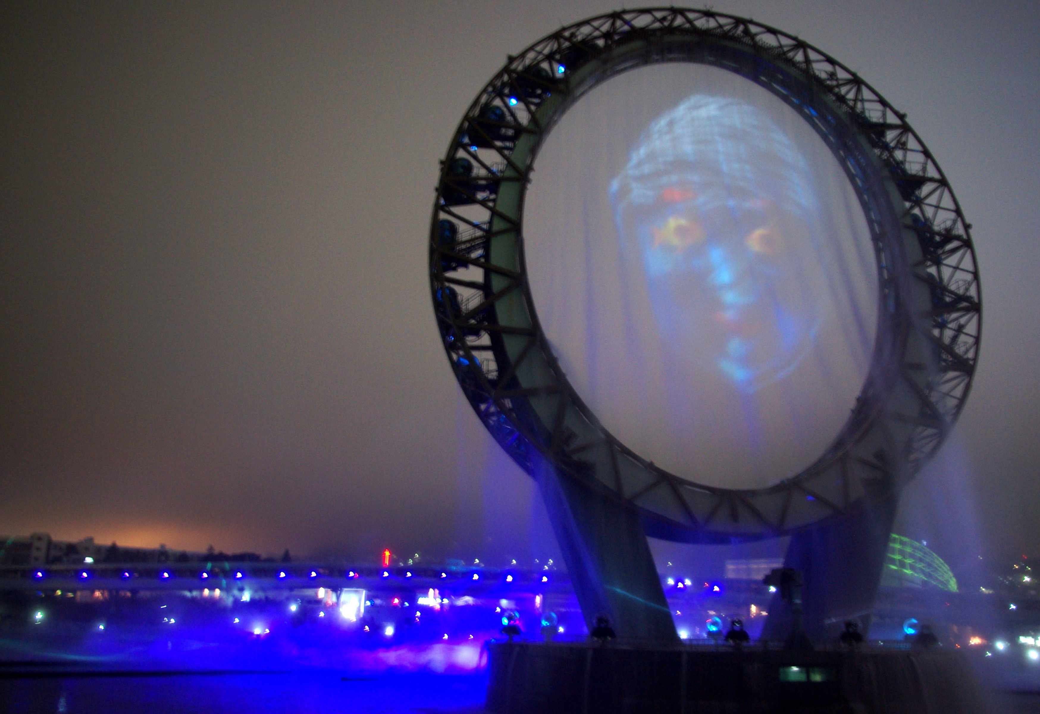 2012 Yeosu Expo Sketch at Yeosu Expo Ministry of Culture, Sports and Tourism Korea Culture and Information Service (KOCIS Photo / Kang Giho) 2012 여수엑스포 여수엑스포 스케치 2012.07. 문화체육관광부 해외문화홍보원